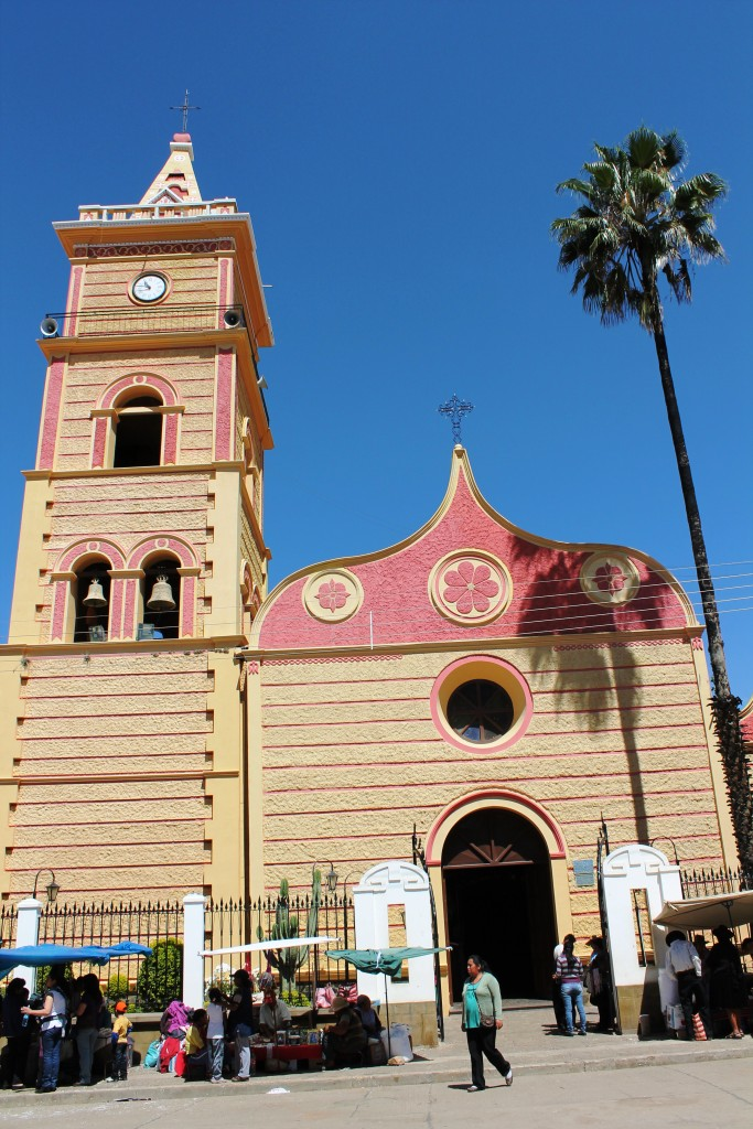 This medium shows the protected monument with the number Pasado Colonial-Mizque in Bolivia.